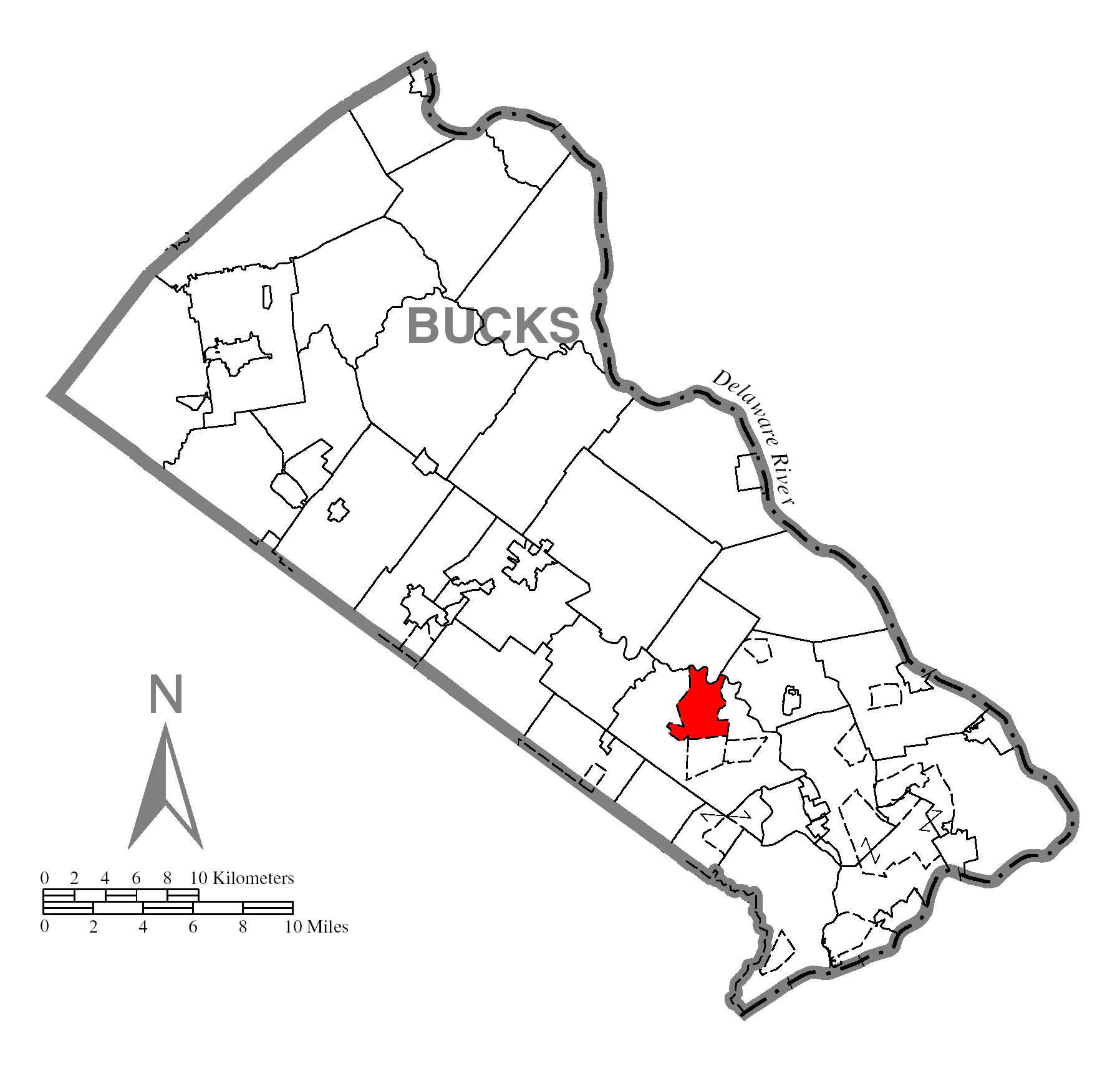 A map of Bucks County showing Richboro, Pennsylvania (alternate) highlighted on the map.